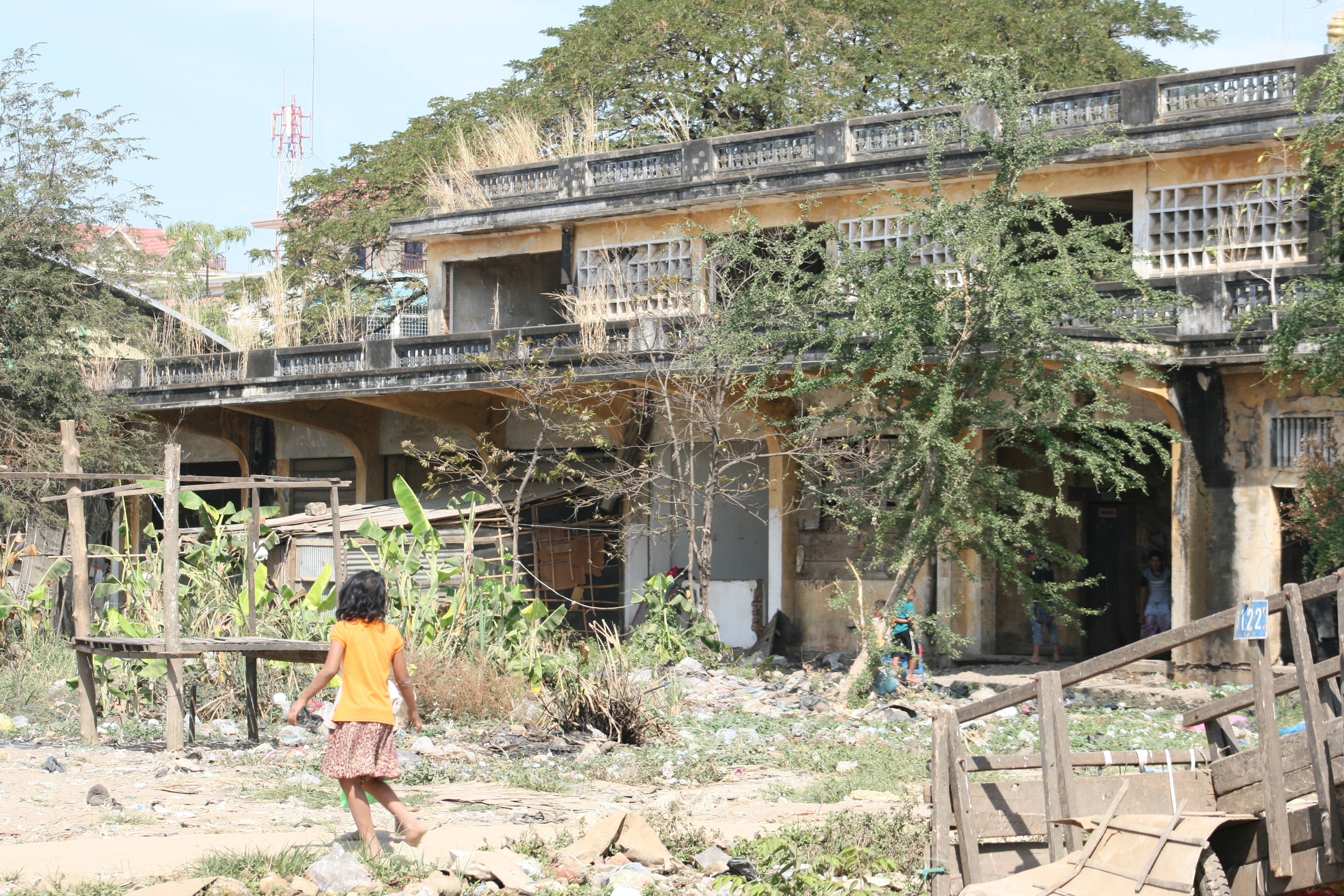 Poipet Railway Station. The decaying station building with shoeless slum dweller, Poipet Cambodia.